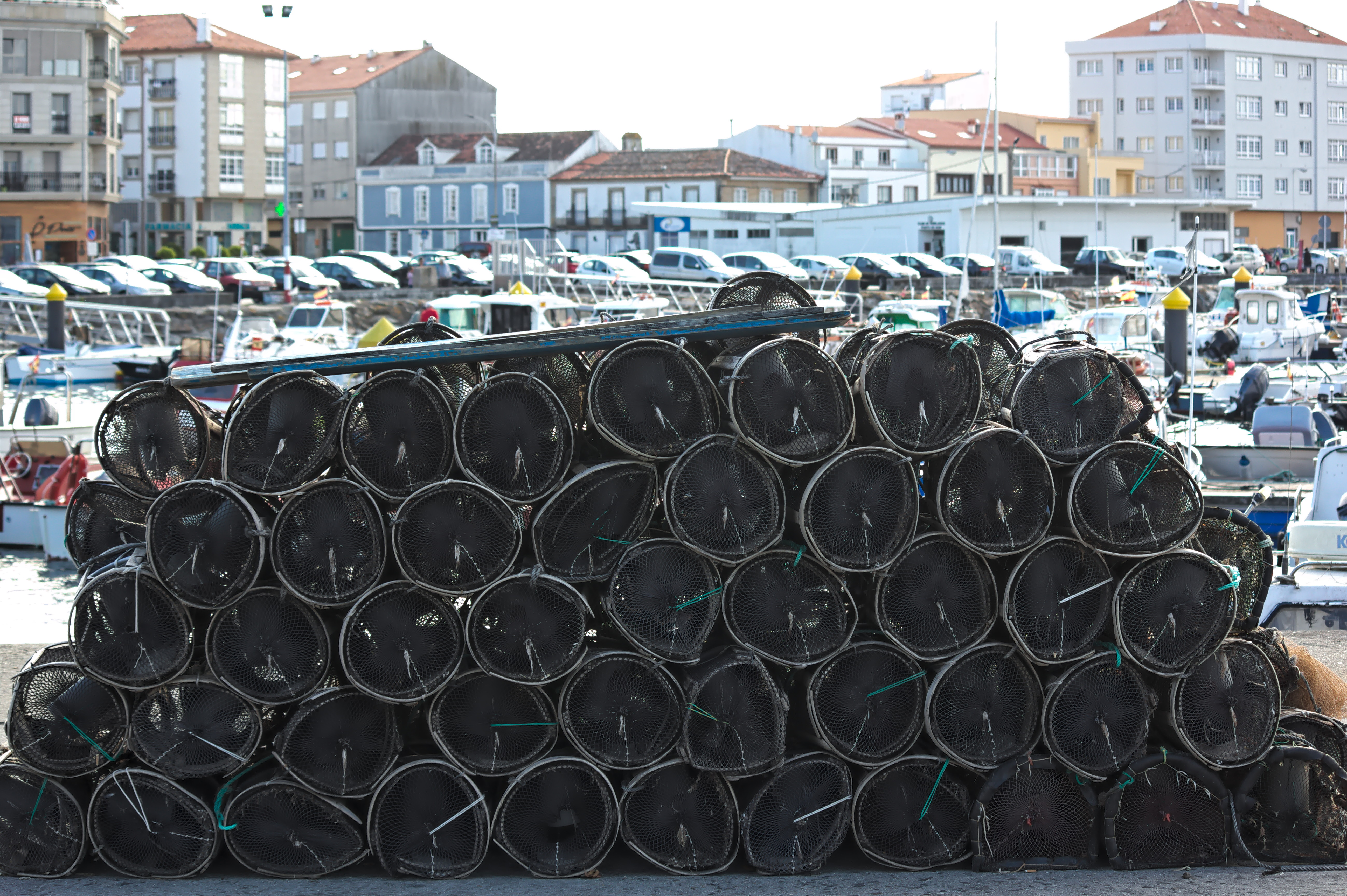 Crab pots in Portosín, Galicia, Spain.